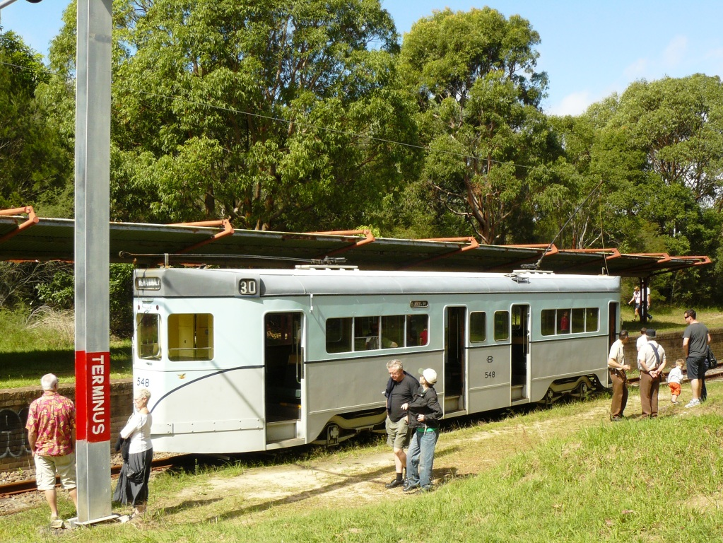 Sydney Tramway Museum: Phoenix class trolley at Royal National Park station